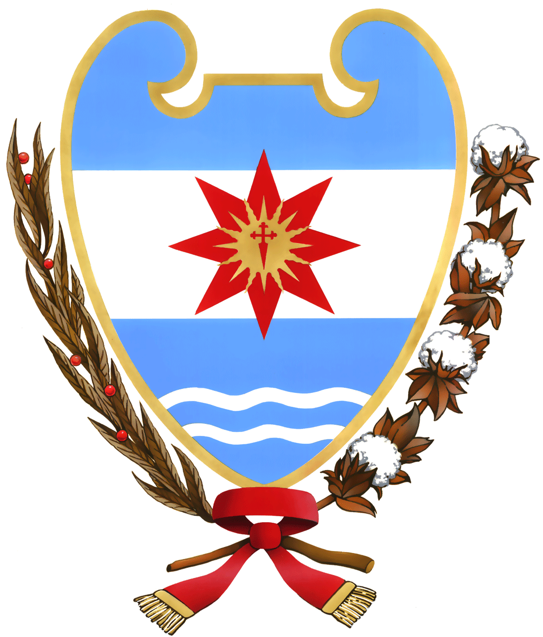 Coat of arms of Santigo del Estero Province.